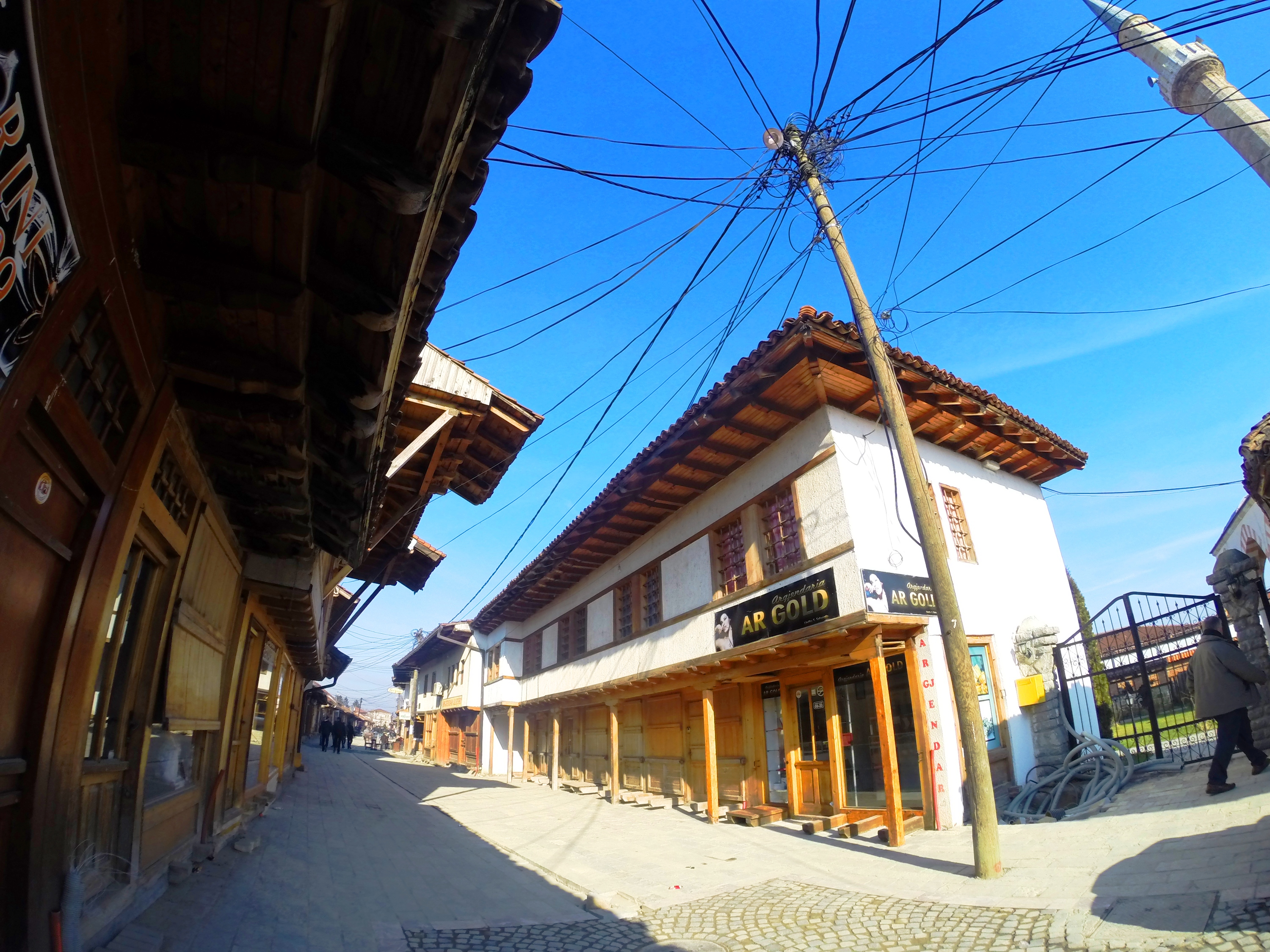 Gjakova's " Çarshia e Madhe " ( Big Bazaar ) was established with the appearance of the first craftsmen and of the manufacture production craft-work. It arose then when Gjakova won the status of " kasaba " when in 1003 H (1594/95) Sylejman Hadim Aga.